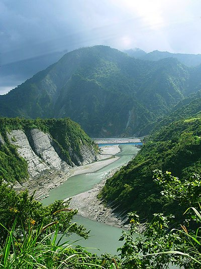 Siouguluan River in Taiwan, Hualien.